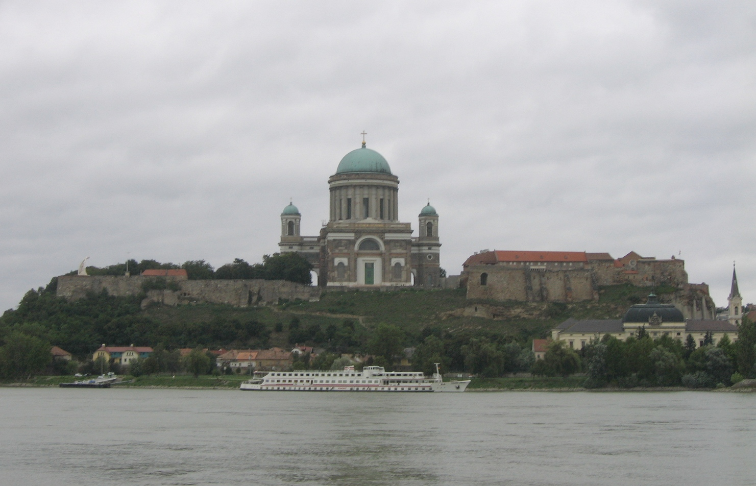 Esztergom, Basilika, seen from the river